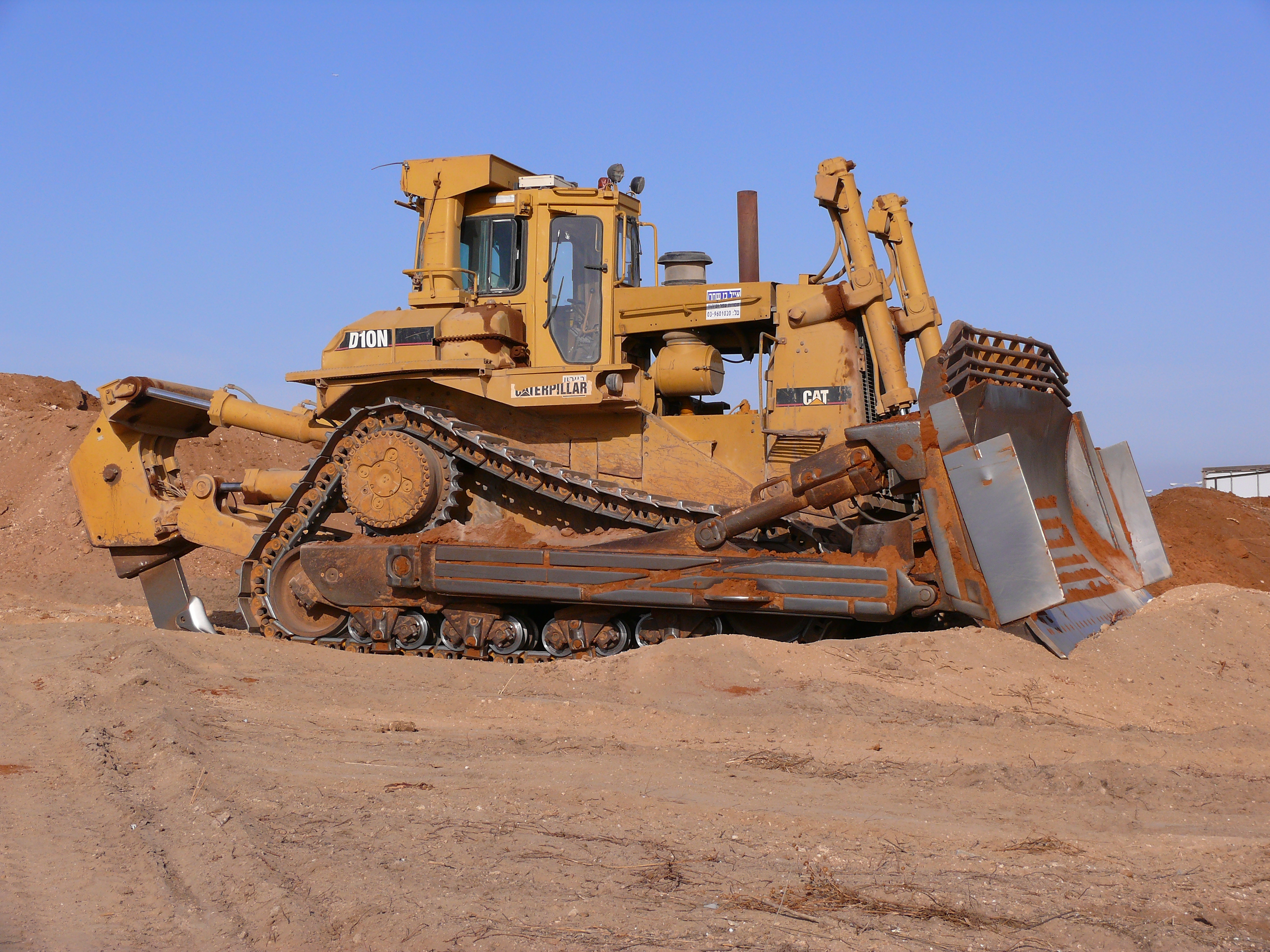 Caterpillar D10N bulldozer, in Israel